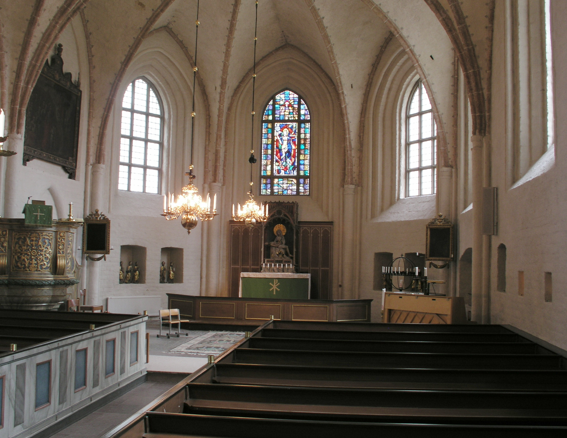 Askeby kyrka / Askeby church, Diocese of Linköping, Linköpings kommun. The picture was taken by Håkan Svensson (Xauxa) the 2nd of October 2005.